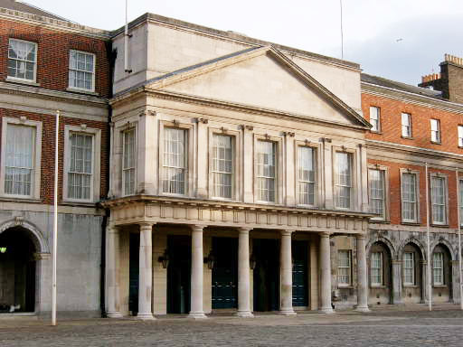 photograph of entrance to state apartments in Dublin Castle - no c/r my image